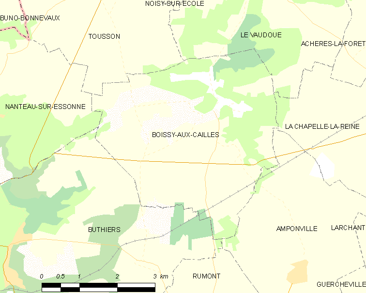 Map of French municipality Boissy-aux-Cailles